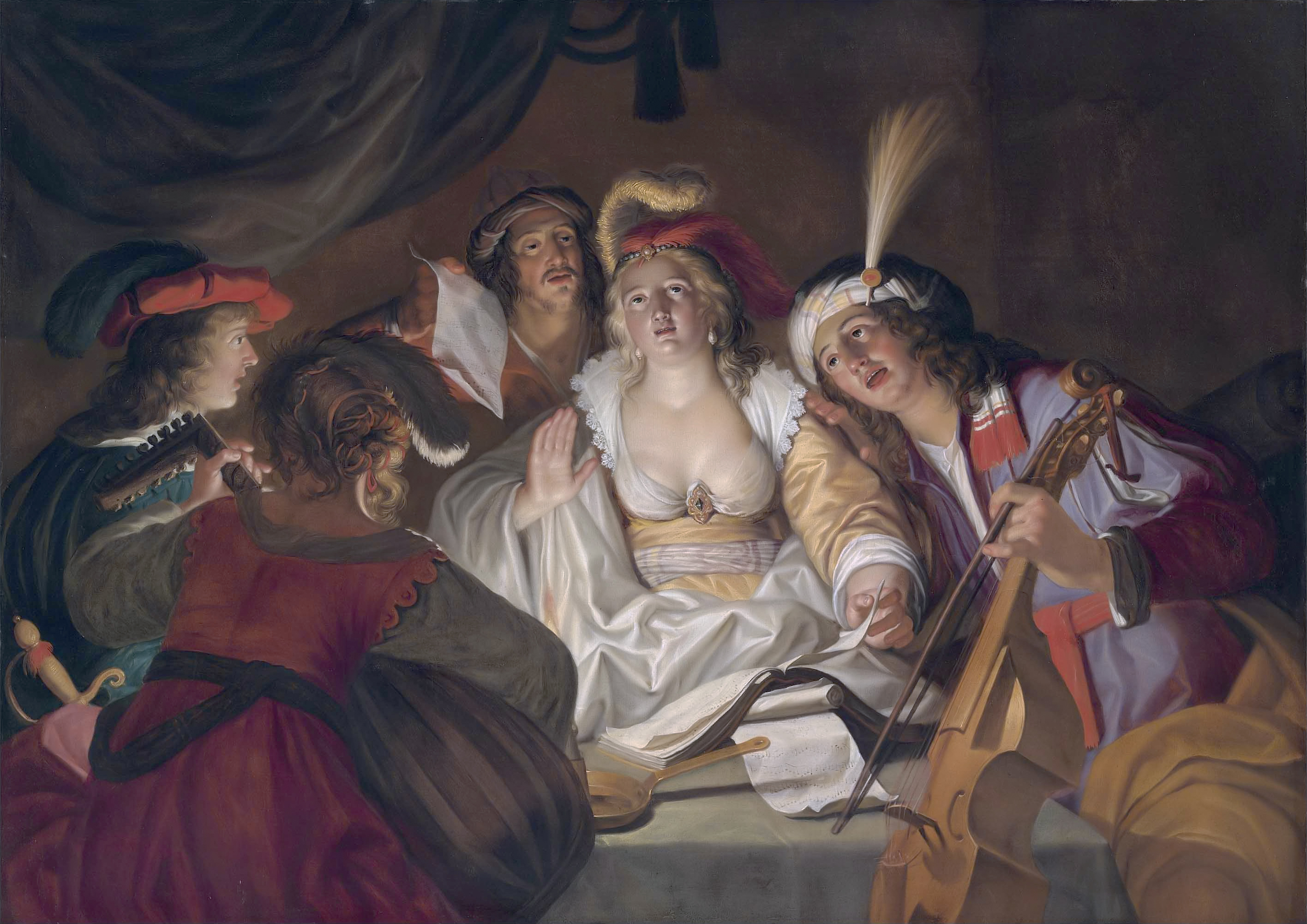 A musical company oil on canvas 98.2 x 137 cm